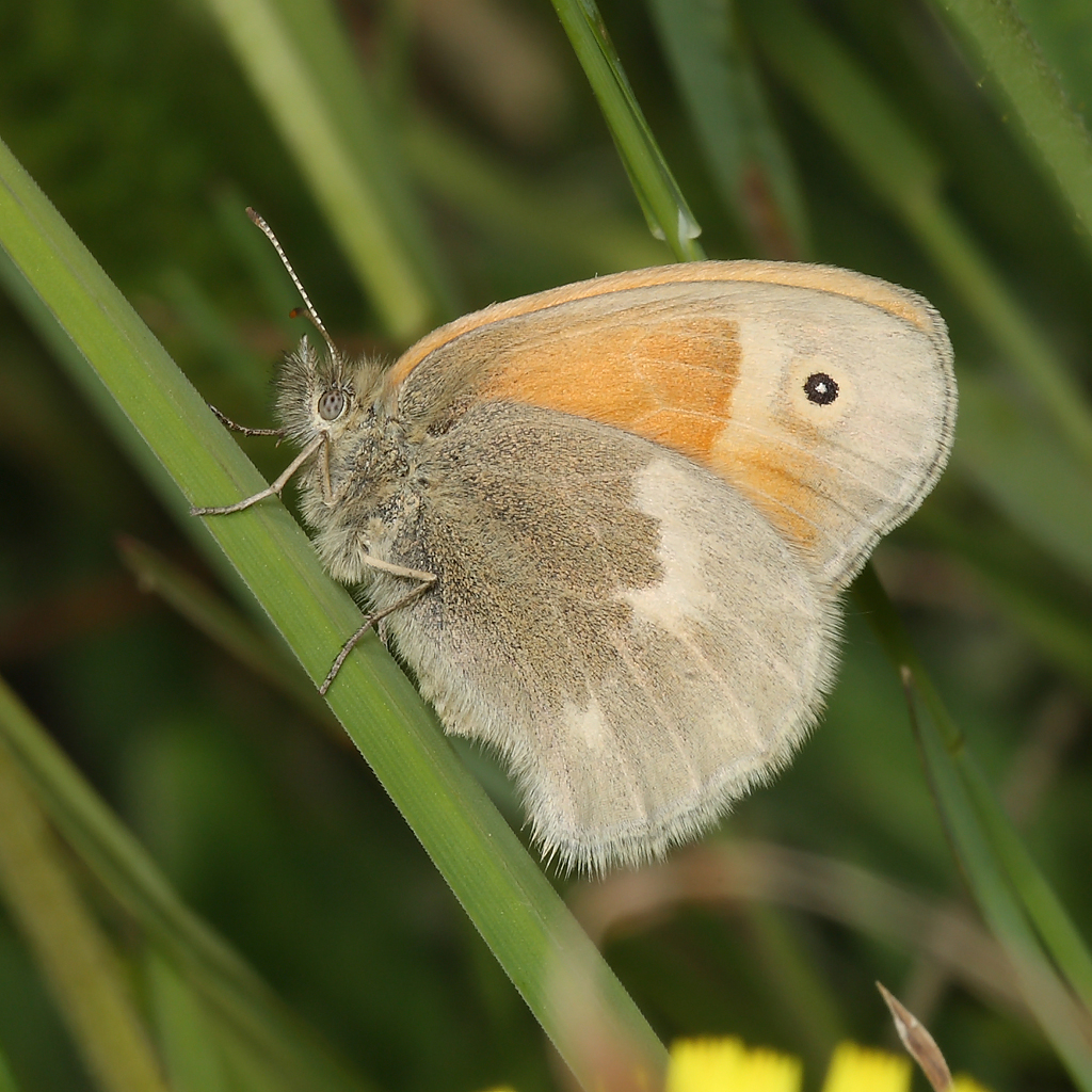 Common Ringlet -- near Dyers Bay, Ontario, Canada -- 2008 June